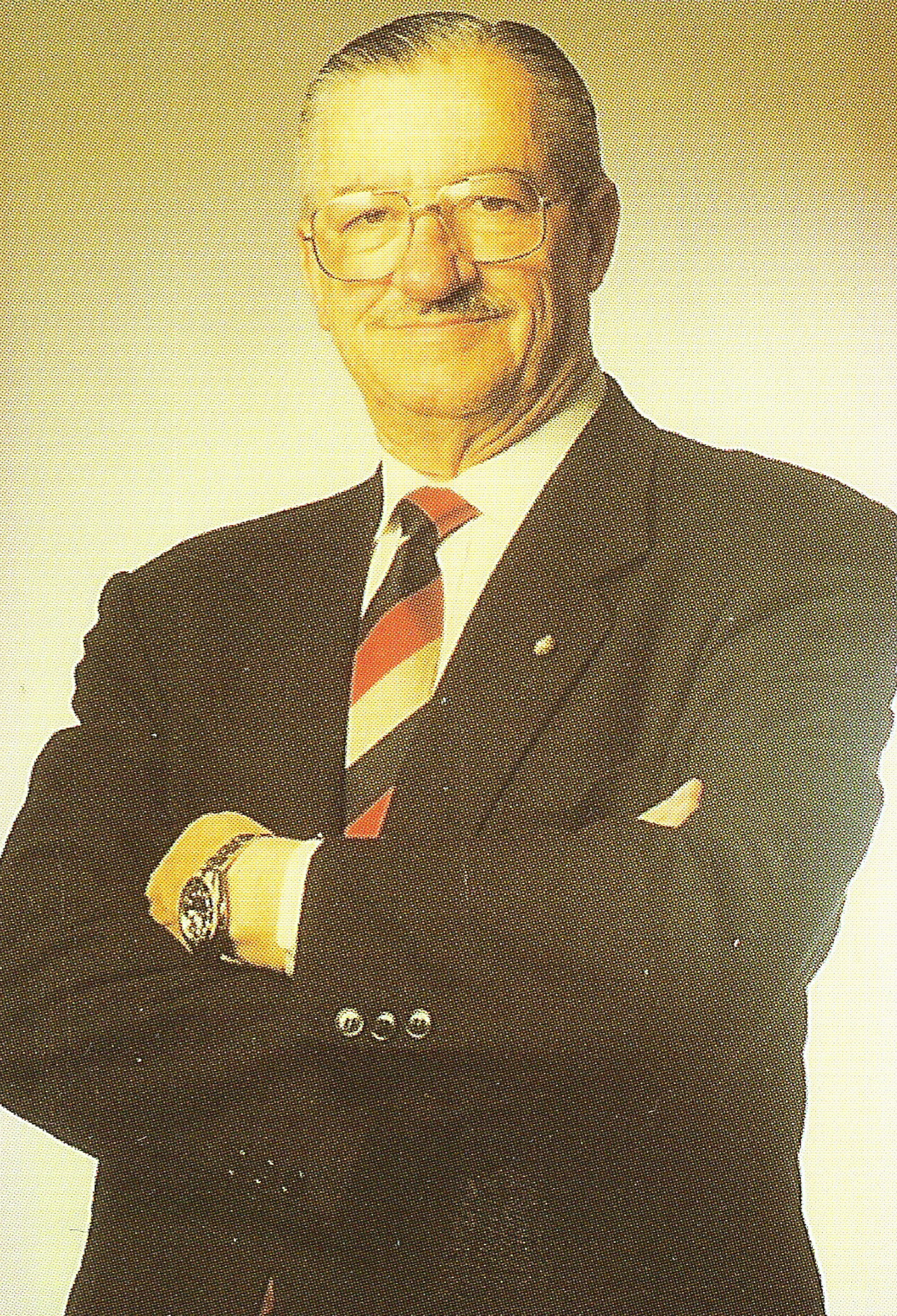 Jorio Borchi